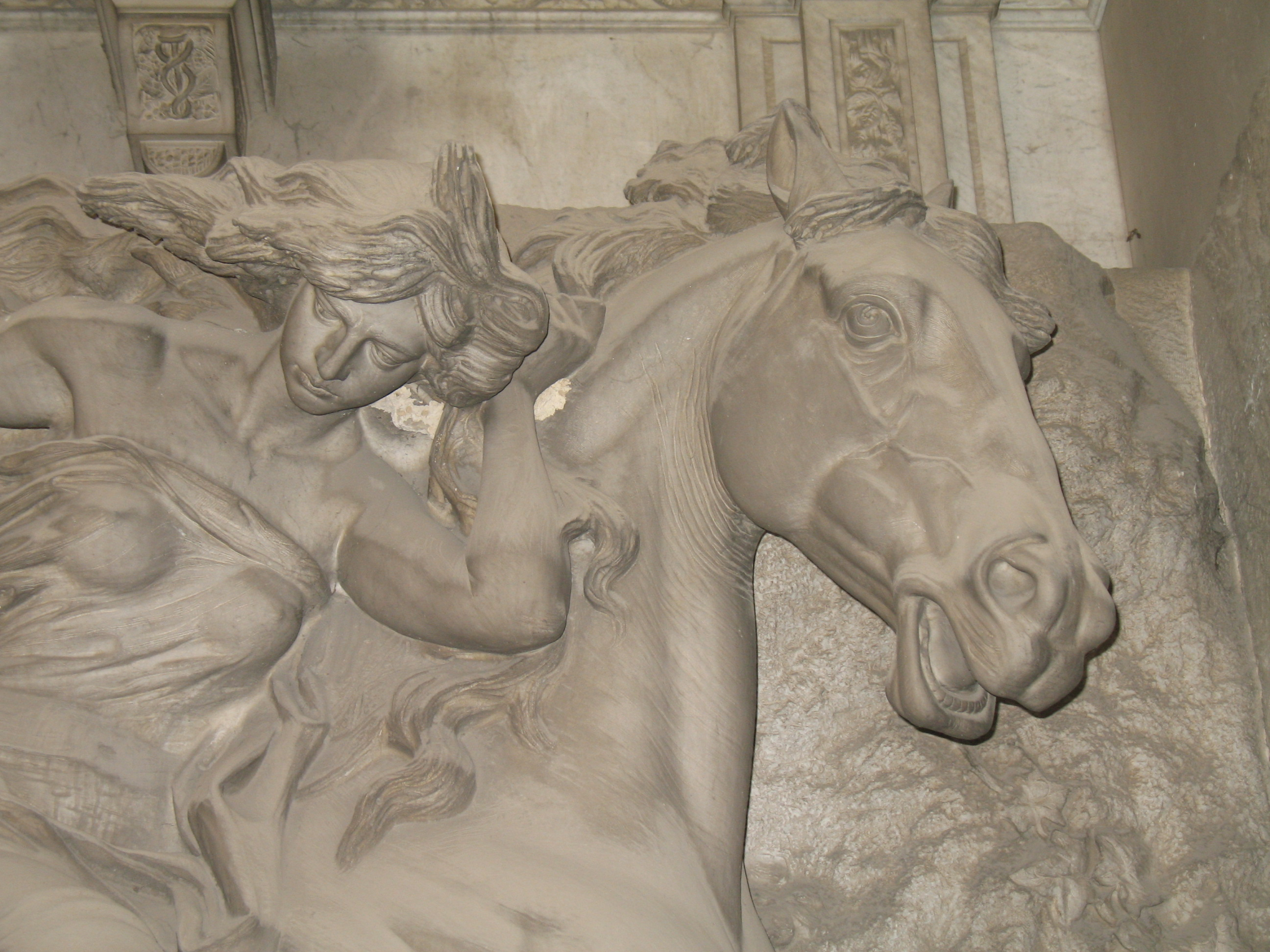 Scala tomb, sculpted by Ettore Sclavi in 1913 Cimitero di Staglieno